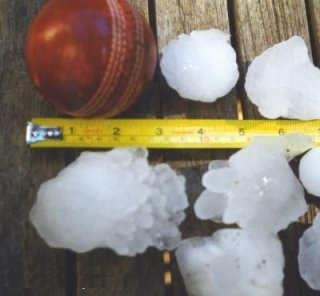 Photographer: Dr. Milton Speer Image usage: [1] Specific image: [2] Released under the Text of the GFDL per agreement with copyright owner.